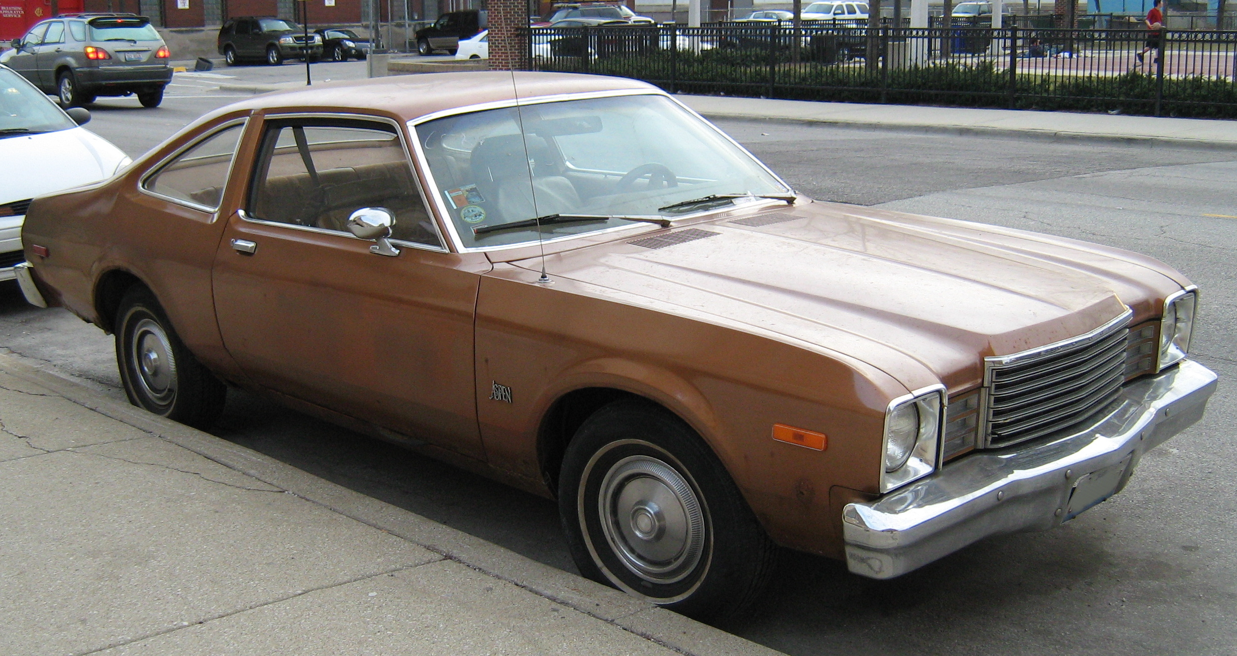 Dodge Aspen two-door sedan (coupe) in Chicago